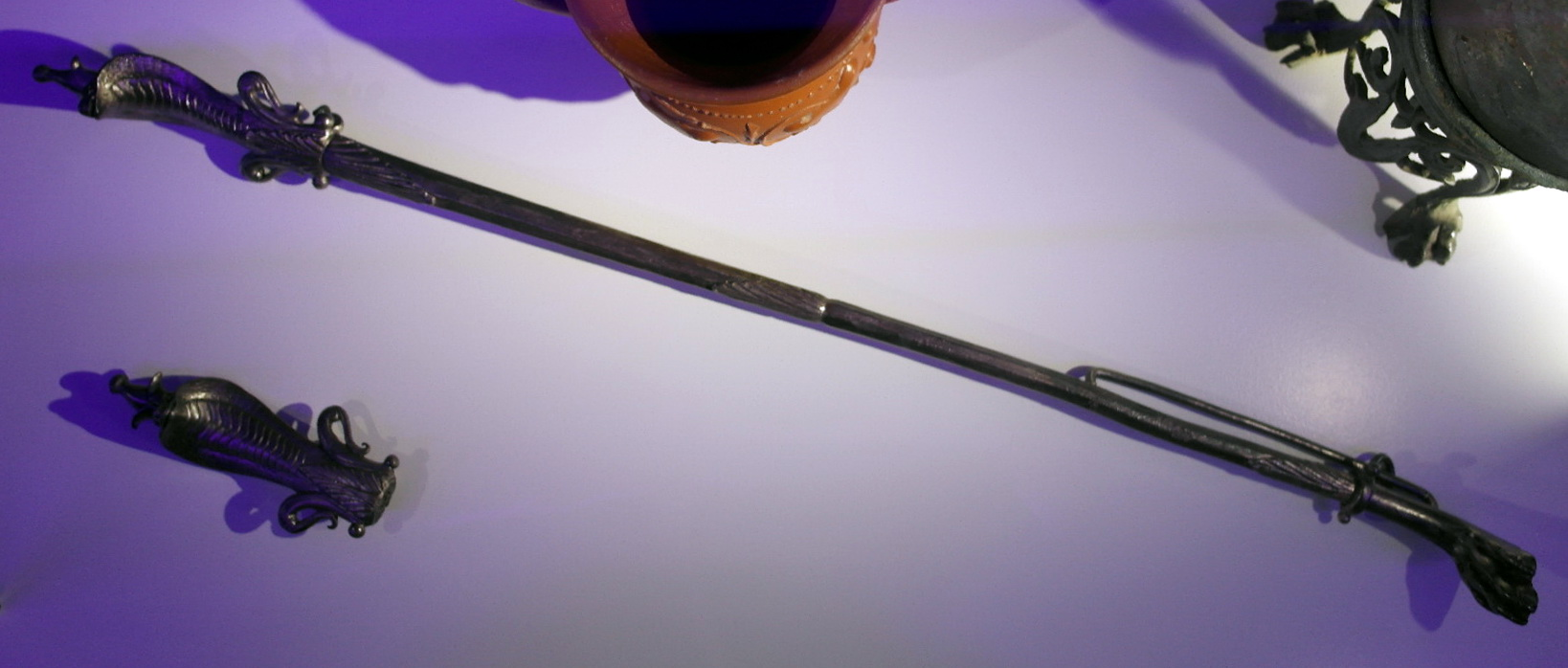 Ancient Roman silver tripod leg and a fragment of another leg, discovered during dredging works in the river Meuse near Stevensweert, Limburg, the Netherlands. The object from the 2nd or 3rd century AD is now in the collection of the Rijksmuseum van Oudheden in Leiden. This photo was taken during the temporary exhibition Topstukken van het Rijksmuseum van Oudheden in the Limburgs Museum in Venlo, while the museum in Leiden was closed for renovations.